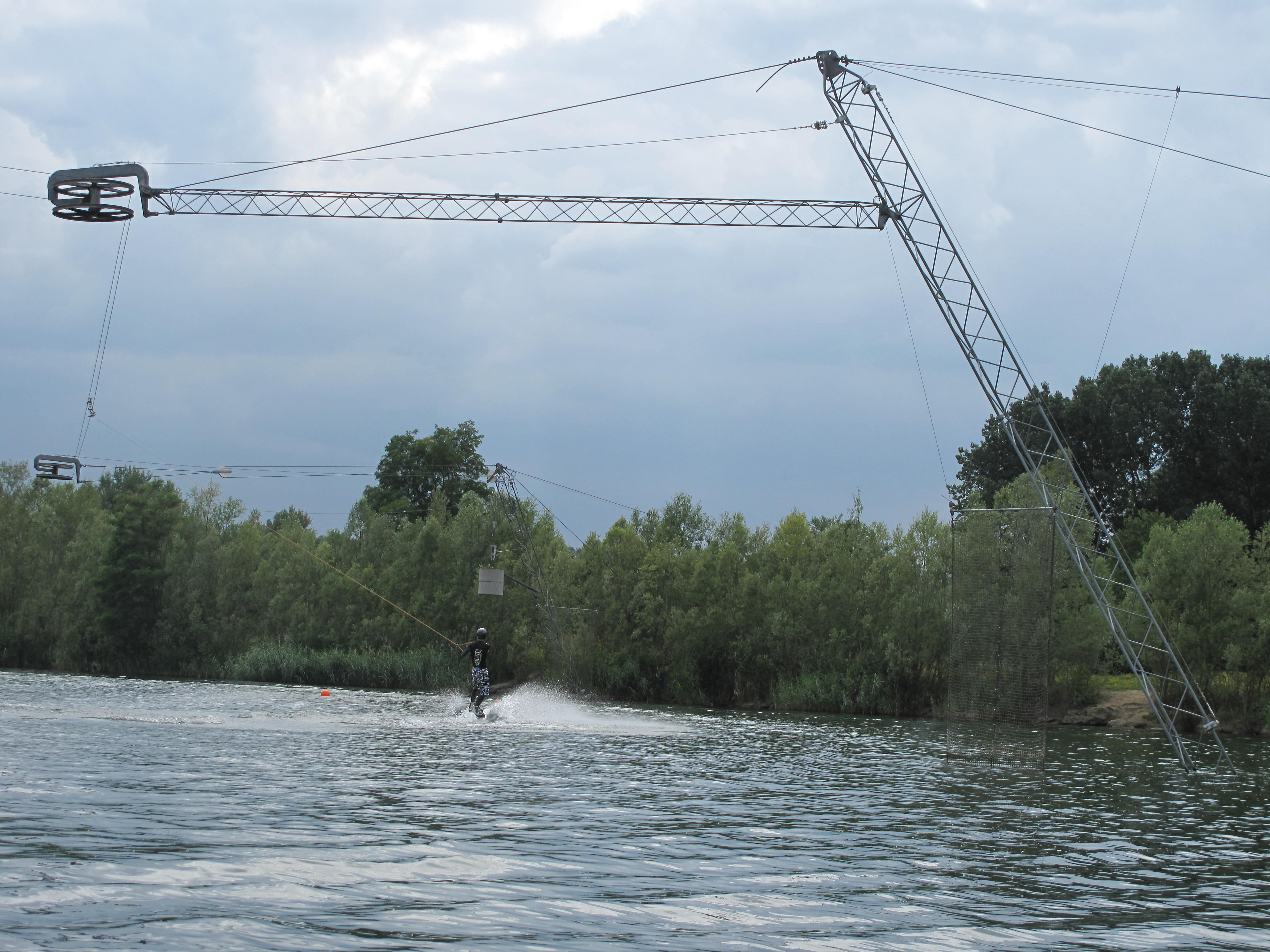 Cable skiing at the leisure center of Jablines, Seine-et-Marne, France.